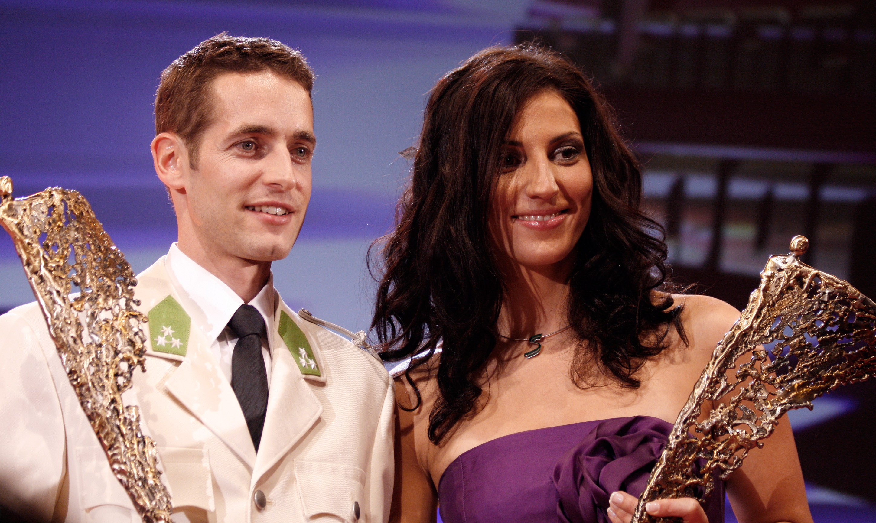 Mirna Jukic and Wolfgang Loitzl, Austrian Sportspersonalities of the year 2009.